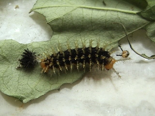 Great Eggfly(Hypolimnas bolina) caterpillar just after molting